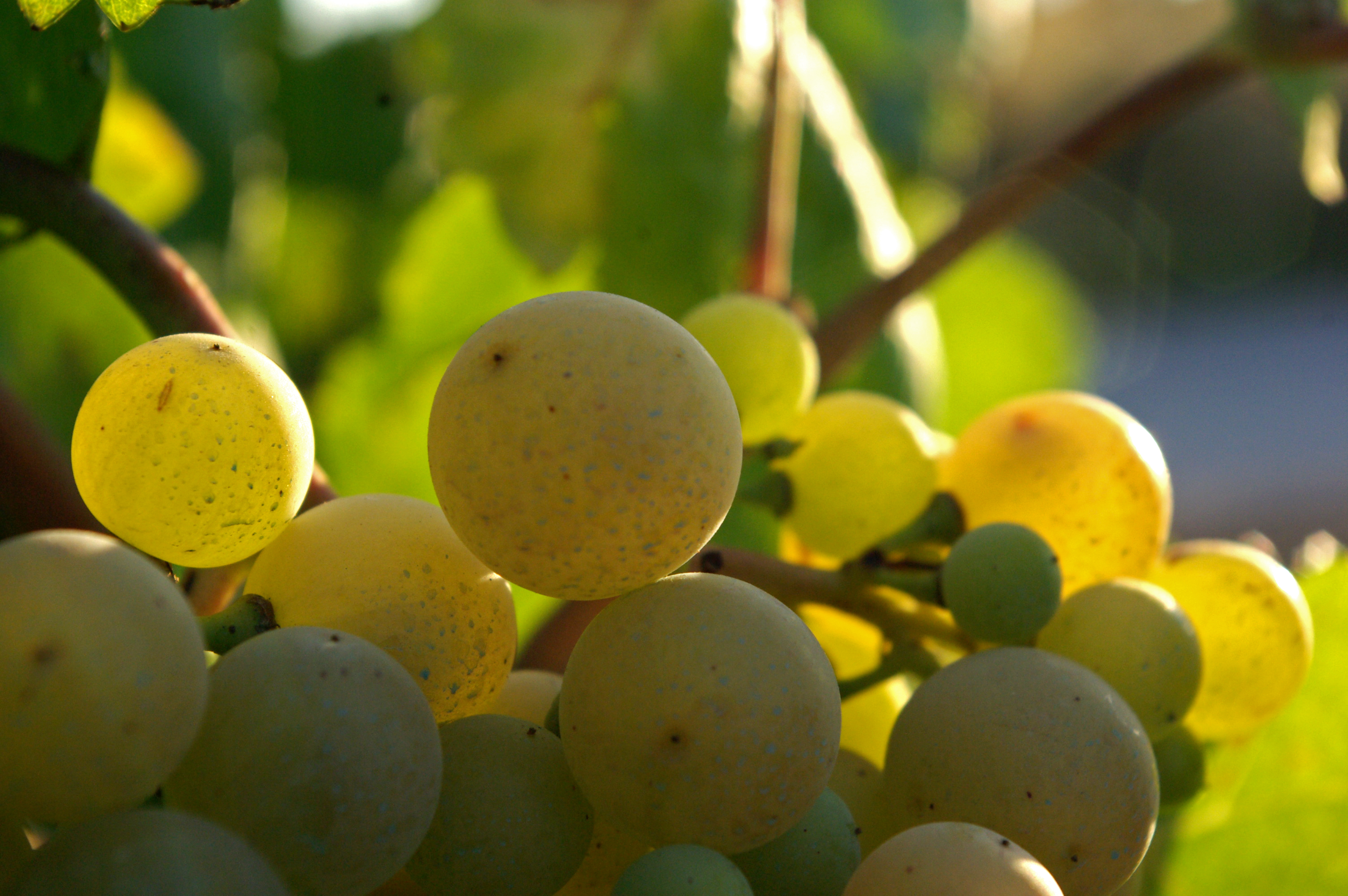 Image of Xarel lo grapes used to make Cava.